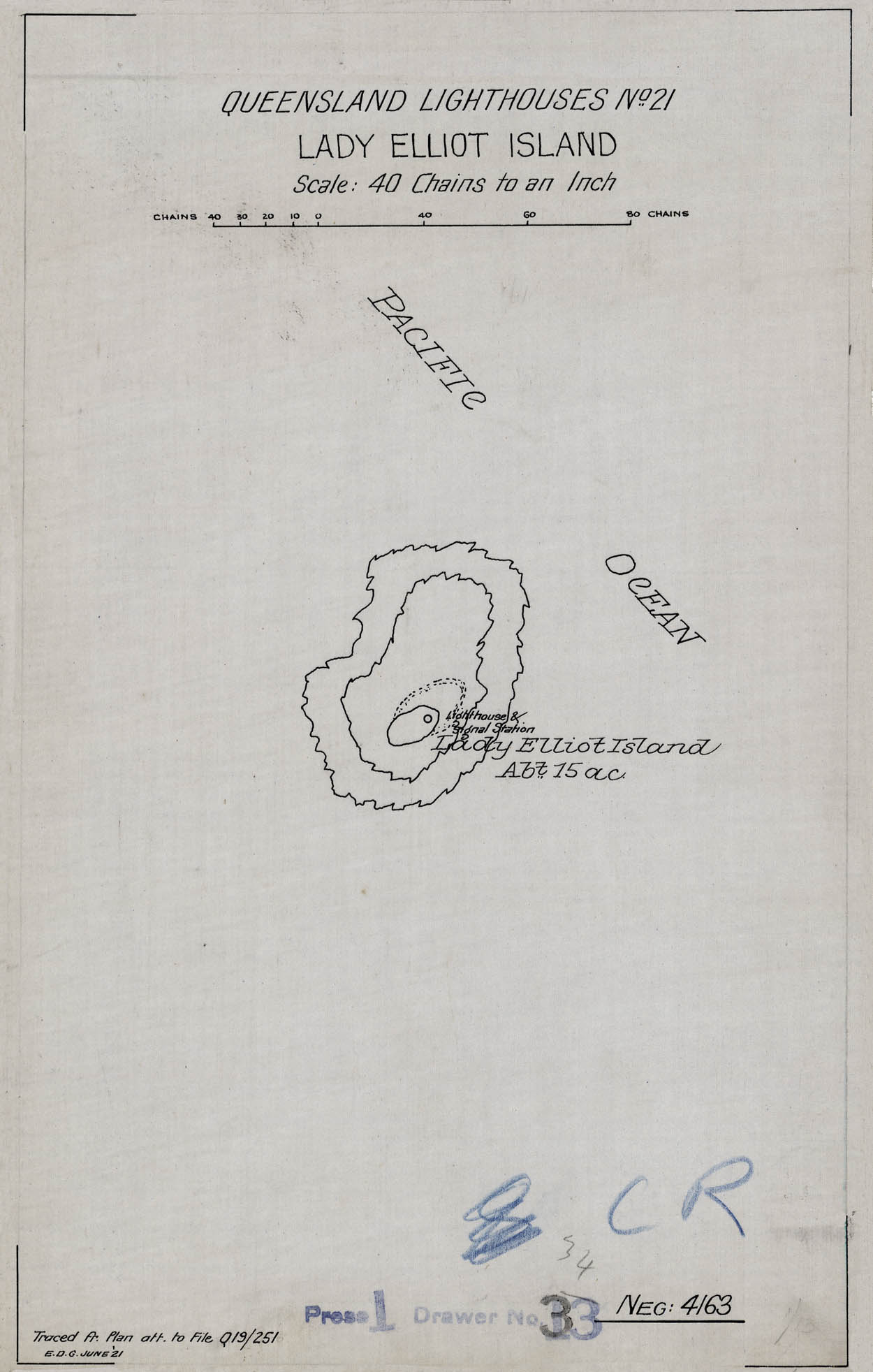 Lady Elliot Island [QLD Lighthouses No. 21] - Plan, 1921